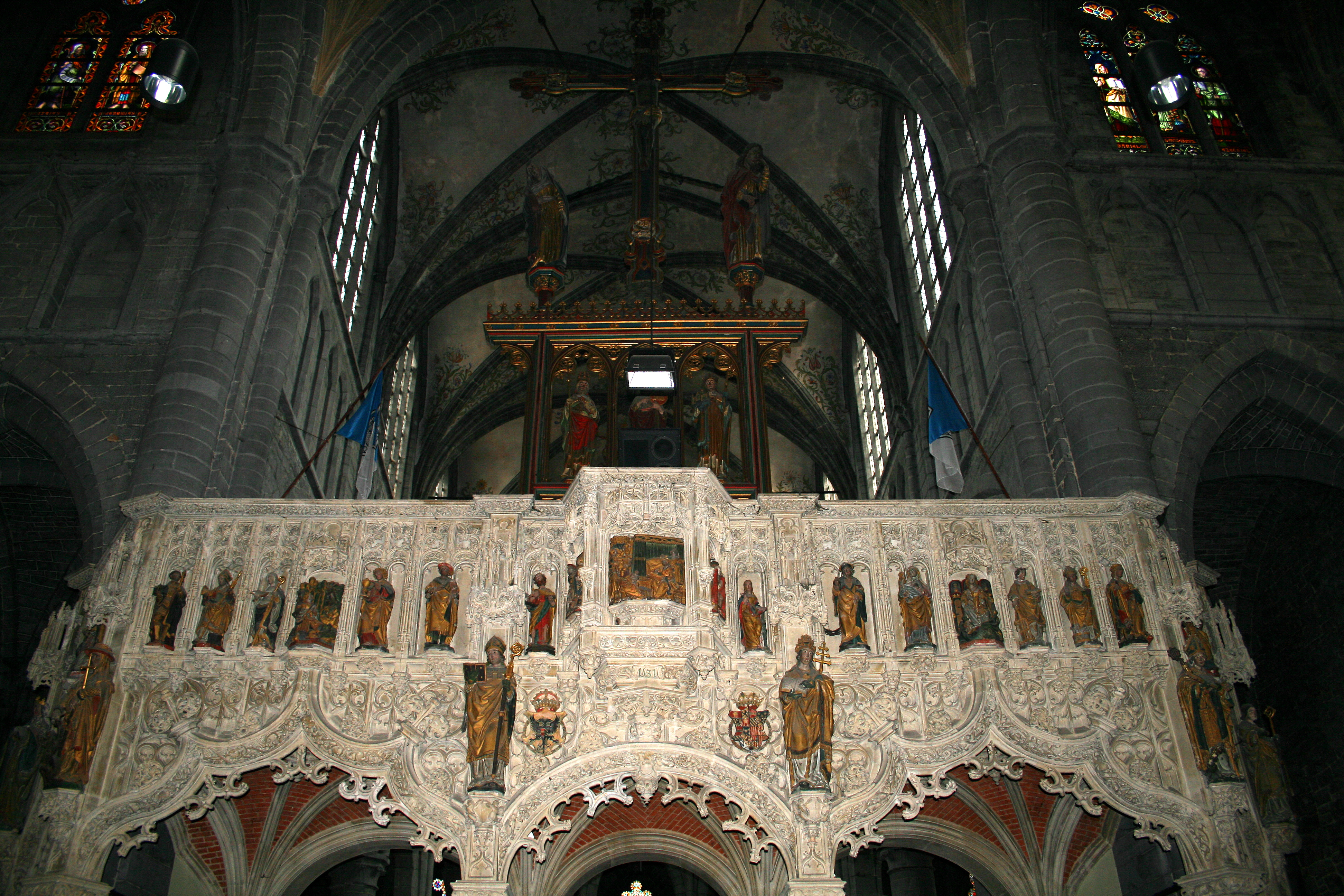 Walcourt (Belgium), the rood screen of Charles V (1531) and the triumphcrucifix (XVth century) of the St Maternus Basilica (XVth century).